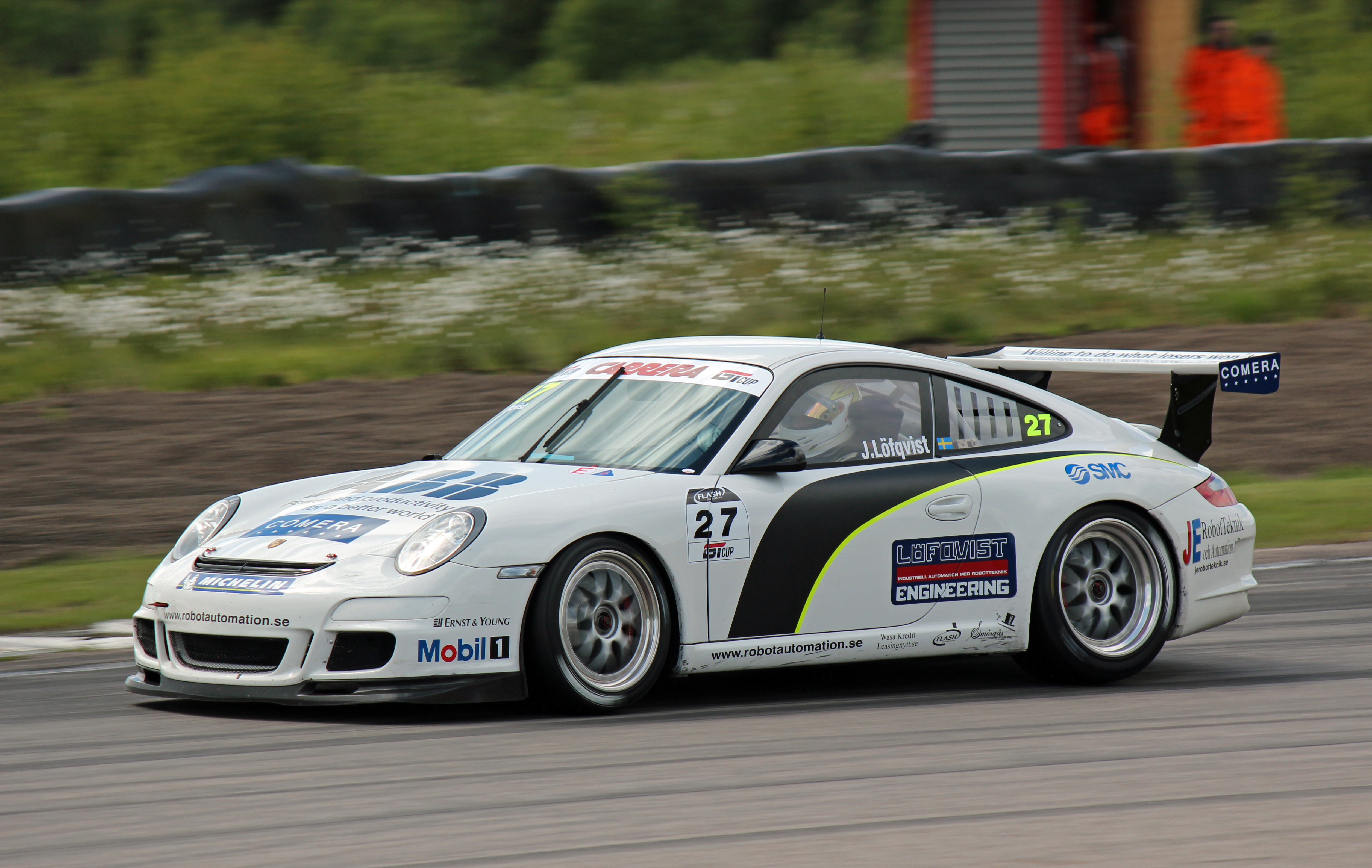 Johan Löfqvist in a Porsche GT3 Cup for Trackslackers in Carrera – GT Cup at Anderstorp Raceway in 2012.